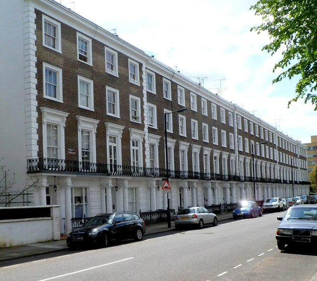 Orsett Terrace London W2